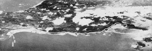 Original Caption: "Japanese Naval Task Force landing site at Dungcas Beach on 10 December 1941 and the route through Agana to Orote Peninsula is shown in this picture from an illustrated review of Japanese naval operations. (Army Photograph.)"